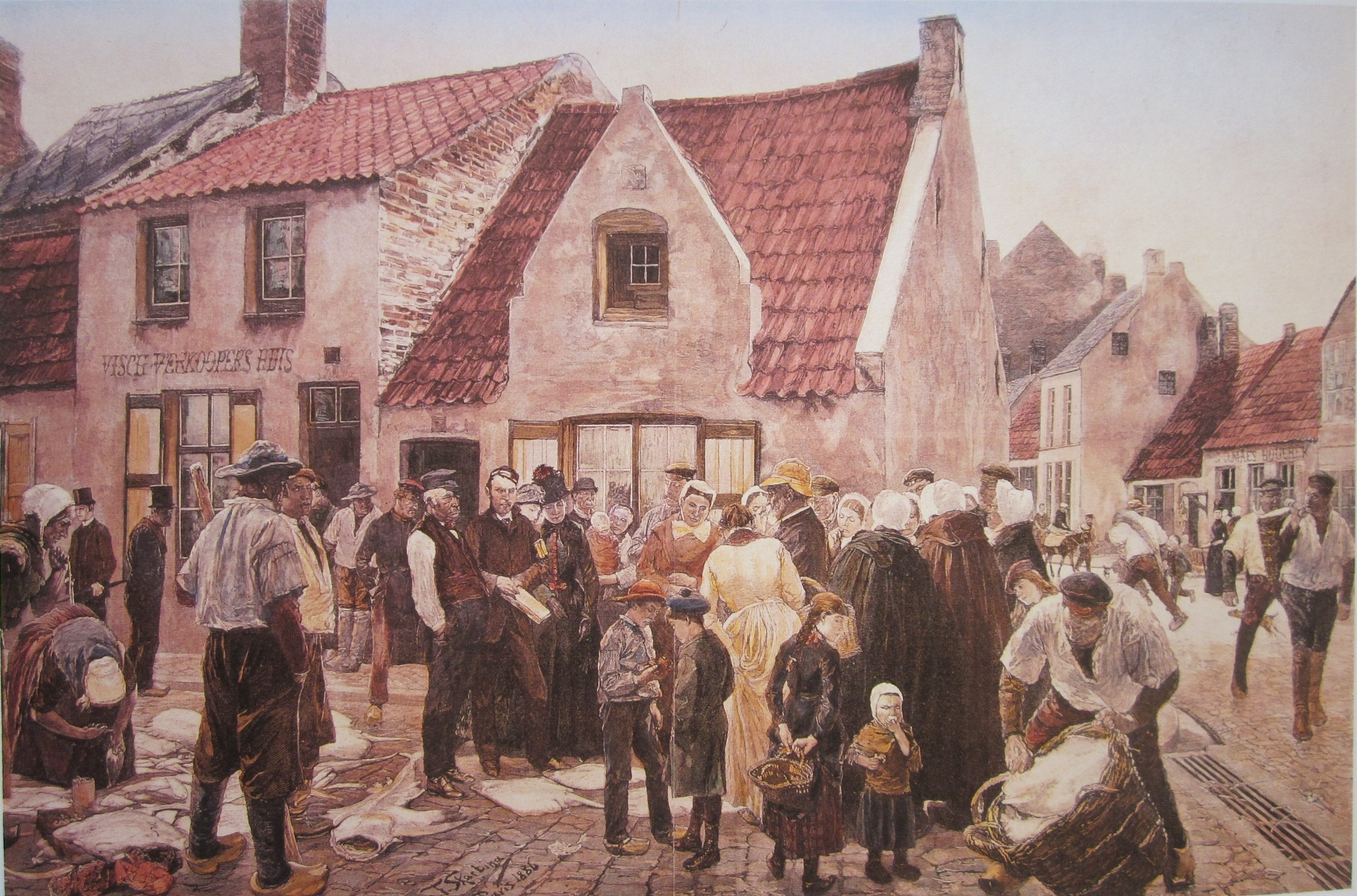 "The Fish Market at Blankenberge" by Franz Skarbina (1886)